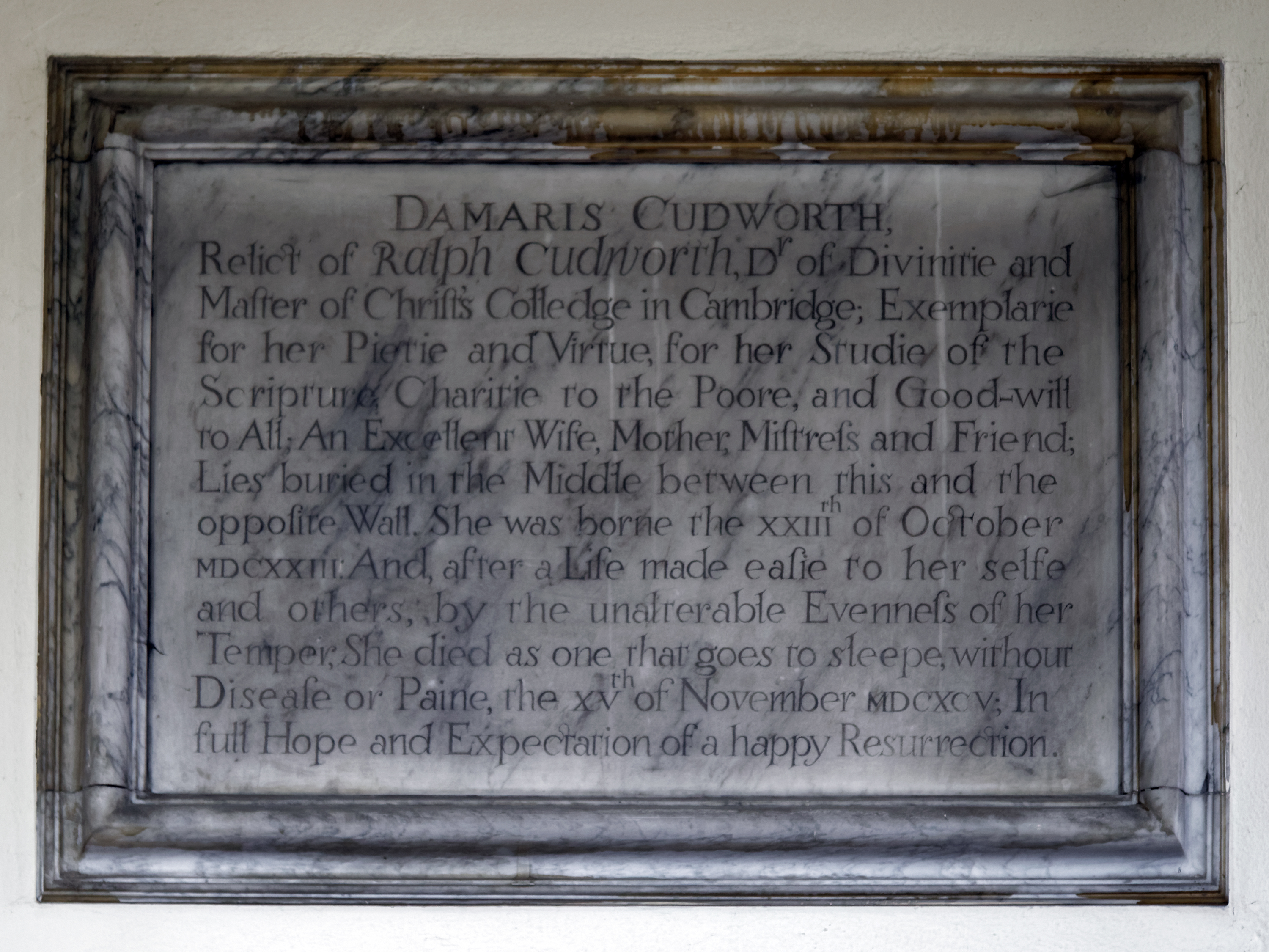 Marble wall memorial tablet plaque to Damaris Cudworth (née Andrews through first marriage, 1623-1695), daughter to Matthew Cradock, first governor of the Massachusetts Bay Company, and late wife to the Cambridge Platonist Rev Ralph Cudworth, in All Saints Church at High Laver, Essex, England.Damaris was mother to Lady Damaris Cudworth Masham who had married Sir Francis Masham MP (1646-1723) as his second wife.The Mashams, a family originally from Yorkshire, acquired 'Oates' (to the north-west of the church and demolished 1830), in 1615. Sir Francis Masham was father to Samuel (1678/9–1758), first Baron Masham who had married Abigail Hill (c.1670–1734), cousin to Sarah Churchill. Abigail became favourite companion and Keeper of the Privy Purse to Queen Anne. Samuel (1712–1776), second Baron Masham, son to Abigail and the first Baron, through profligacy squandered the family wealth, some of which was that of John Locke (buried in the churchyard), who lived in the Masham household for the last years of his life and had bequeathed his wealth to Lady Damaris, and Sir Francis Masham and Lady Damaris' only child, Francis Cudworth Masham (1686–1731). Lady Damaris was interred at Bath Abbey, her son Francis Cudworth Masham at the nearby parish church at Matching, his vault discovered in 1990.Camera: Canon EOS 6D with Canon EF 24-105mm F4L IS USM lens.Software: RAW file lens-corrected, optimized and downsized with DxO OpticsPro 11 Elite, Viewpoint 2, and Adobe Photoshop CS2.